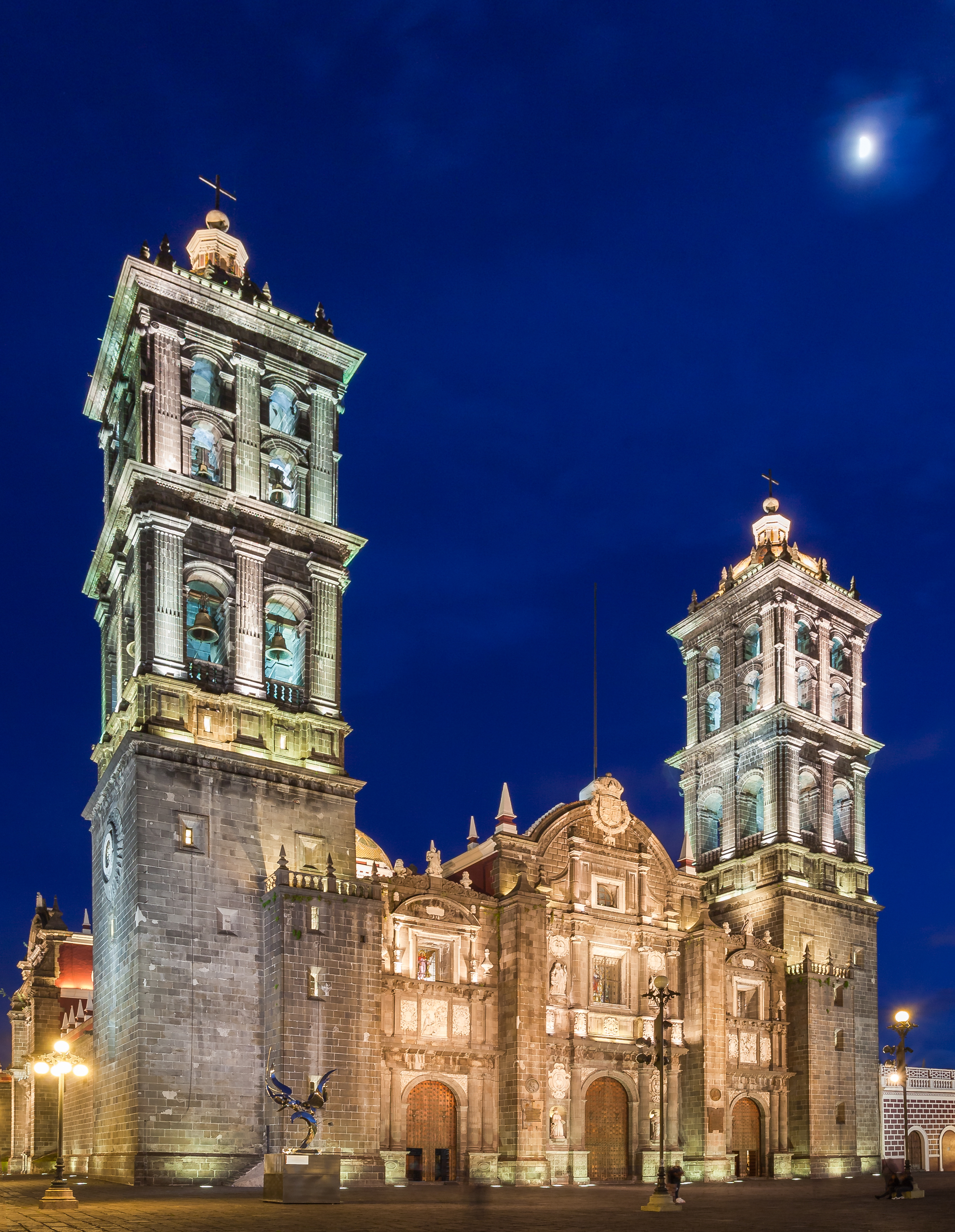 Cathedral of Puebla, Mexico